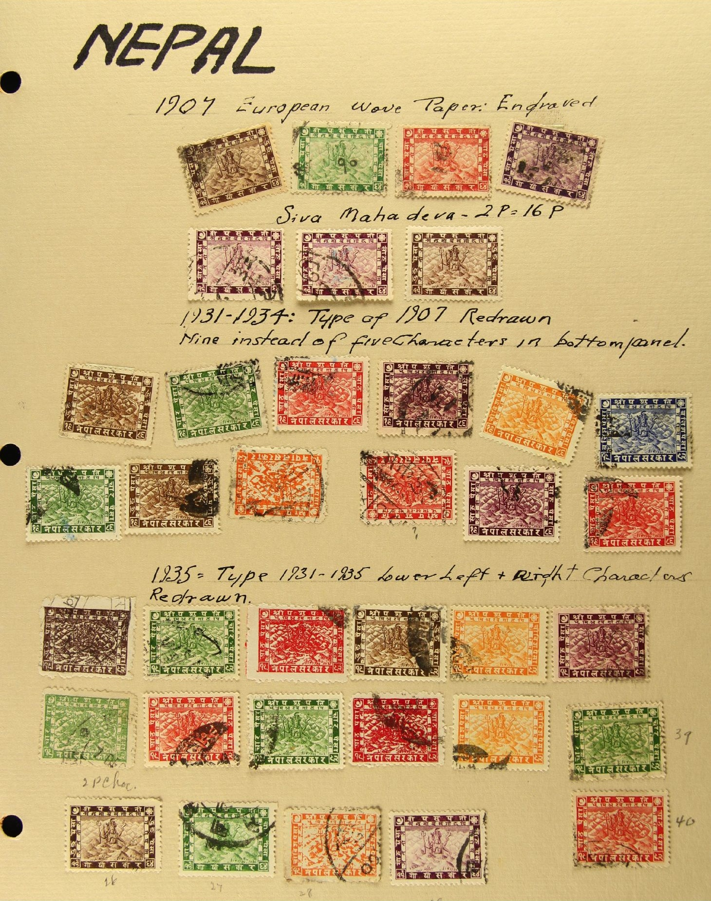 Stamp album page of Pasupati stamps of Nepal